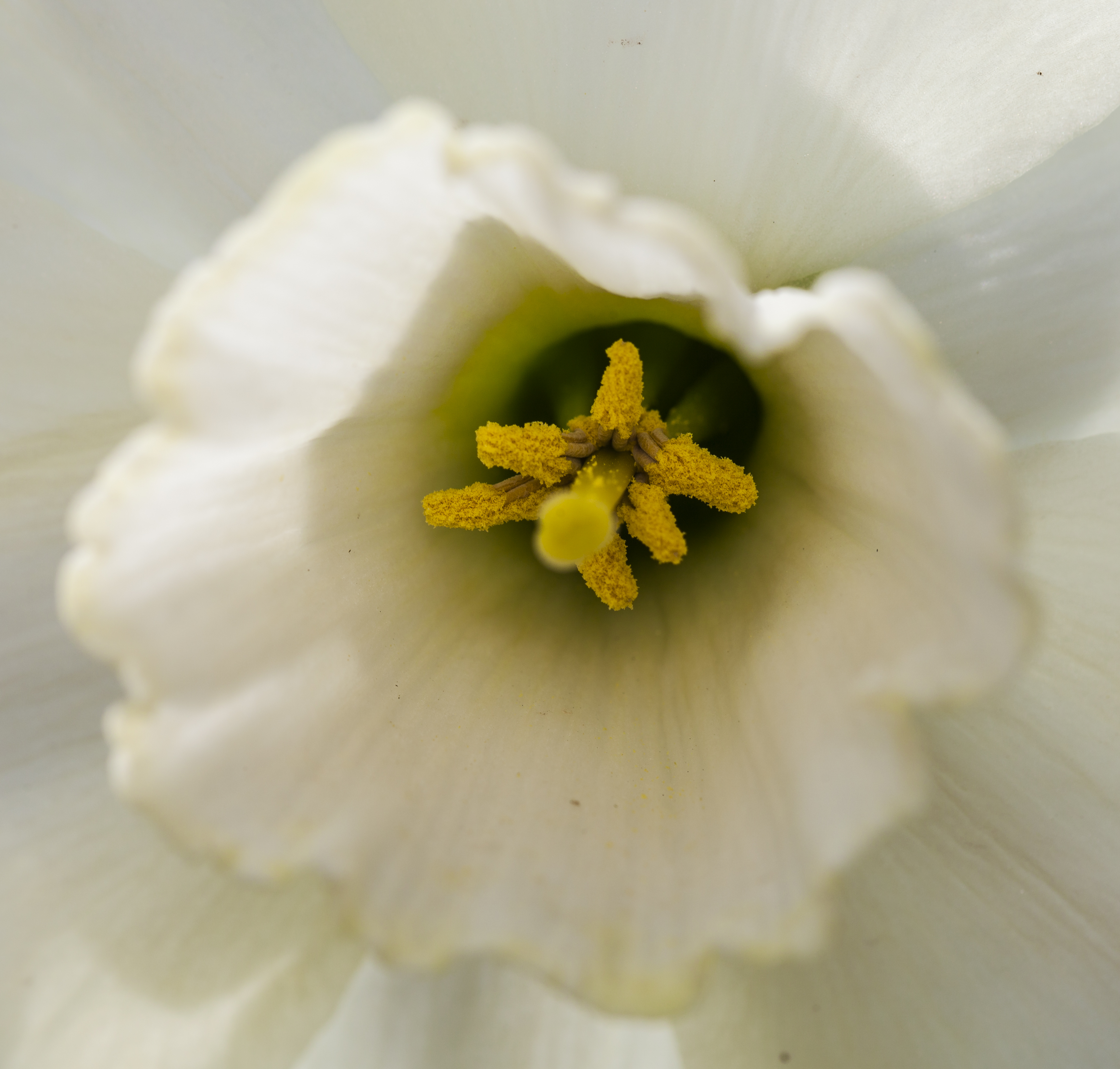 Narcissus poeticus 'Yellow cheerfulness', Munich Botanical Garden, Germany